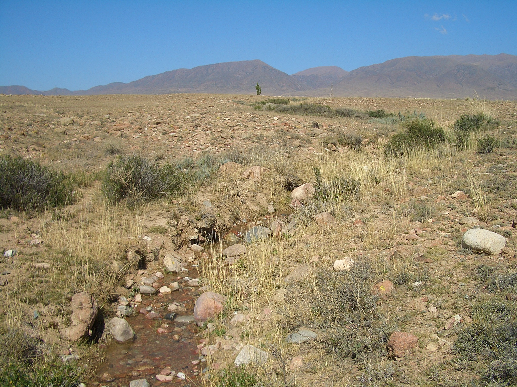 The aryk - a channelled stream - that carries fresh water from the mountains to the lakeside village of Tamchy.